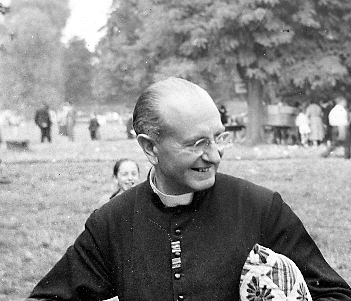 Edouard FROIDURE born 1899, died 1971, Belgian abbot, social entrepreneur.